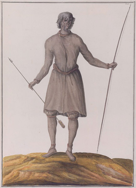 Rare Illustation Painting of Slave Of Fox Indians In Illinois Country Or Nepissing Indians In French Colonial Canada from Estampes et photographie, OF-4(A)-FOL, Bibliothèque nationale de France (Prints and Photography, OF-4 (A) -FOL, National Library of France)